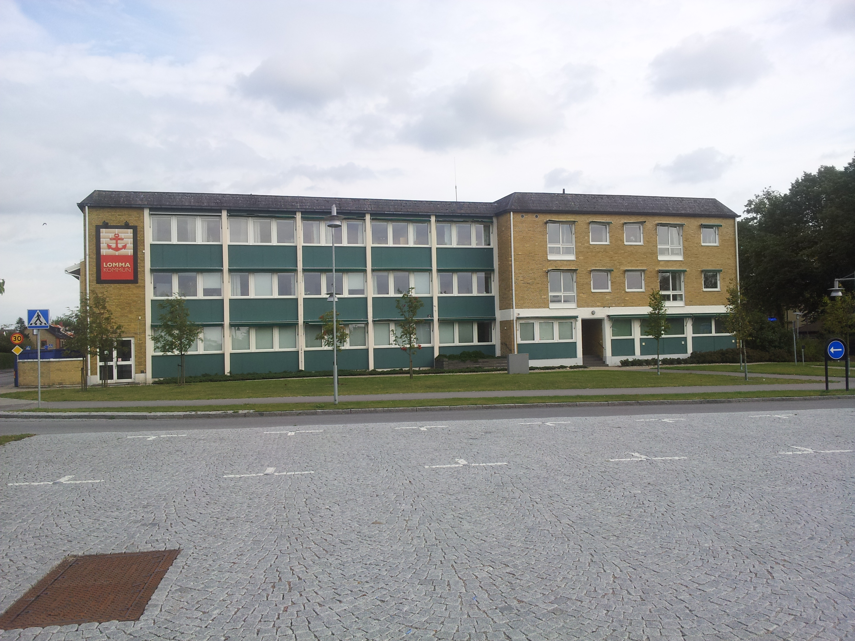 Lomma municipal building